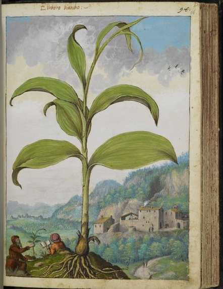 Lichene by Gherardo Cibo